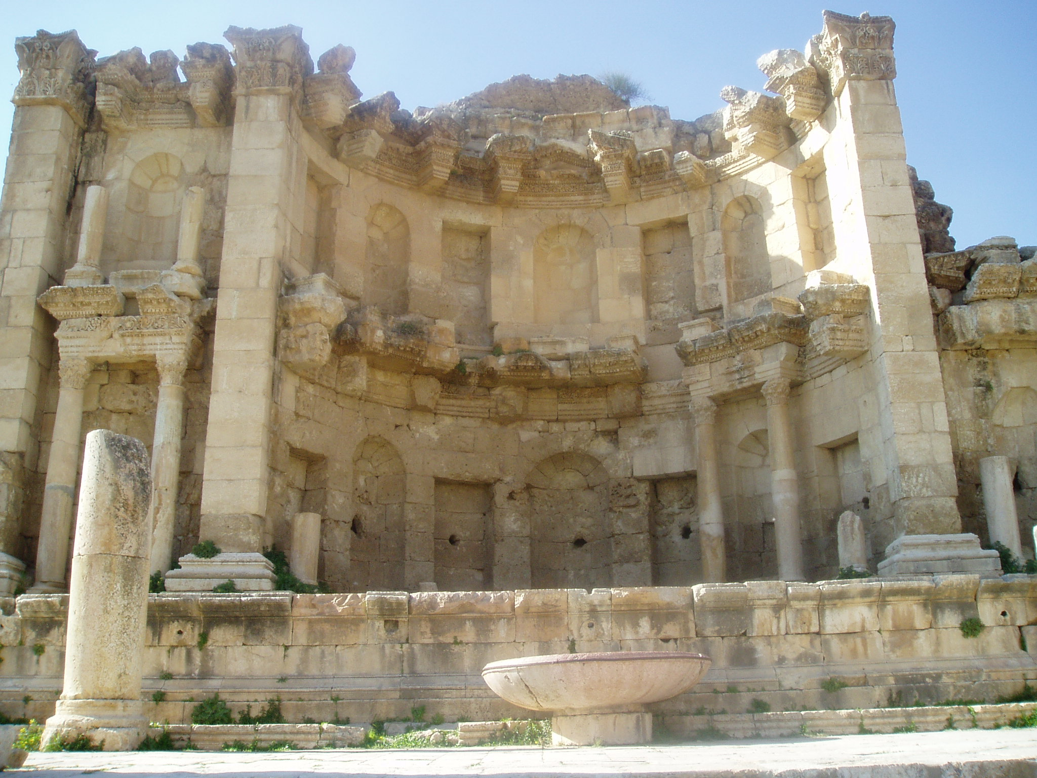 Nymphaeum in Jerash, Jordan